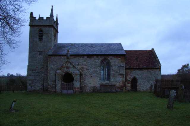 Church of England parish church of St John the Baptist, Plumpton, north of Weedon Lois, Northamptonshire. The church is owned and maintained by a trust. Services are held about four times a year.